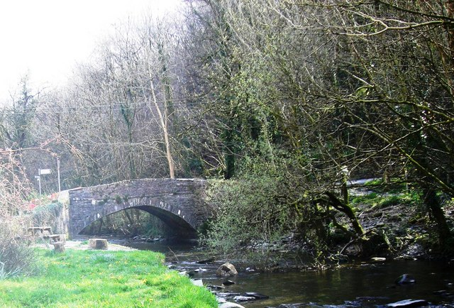 Pont Cych over the Afon Cych Pont is the Welsh word for bridge. This is Pont Cych over the Afon Cych. Afon is Welsh for river.